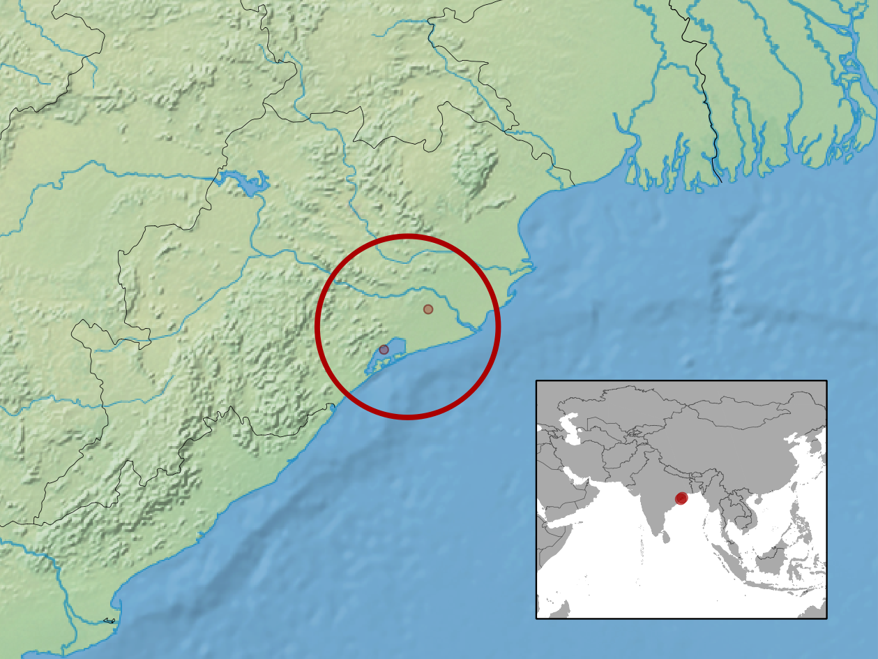 geographic distribution of Barkudia insularis